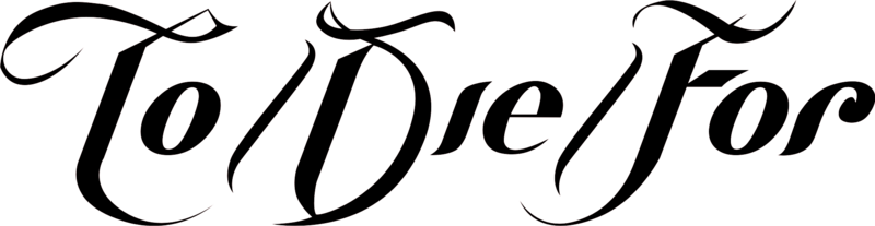 To/Die/For logo